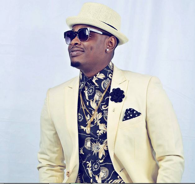 Ommy Dimpoz